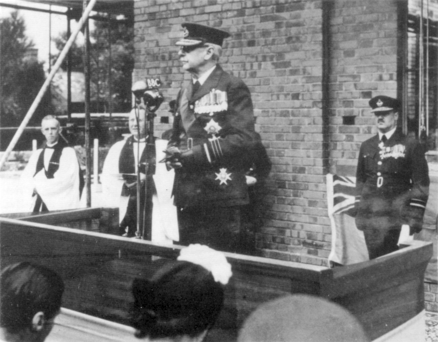 Air Chief Marshal The Lord Dowding laying the foundation stone at the Battle of Britain Memorial Chapel at Biggin Hill. Air Vice-Marshal The Earl of Bandon is in attendance.